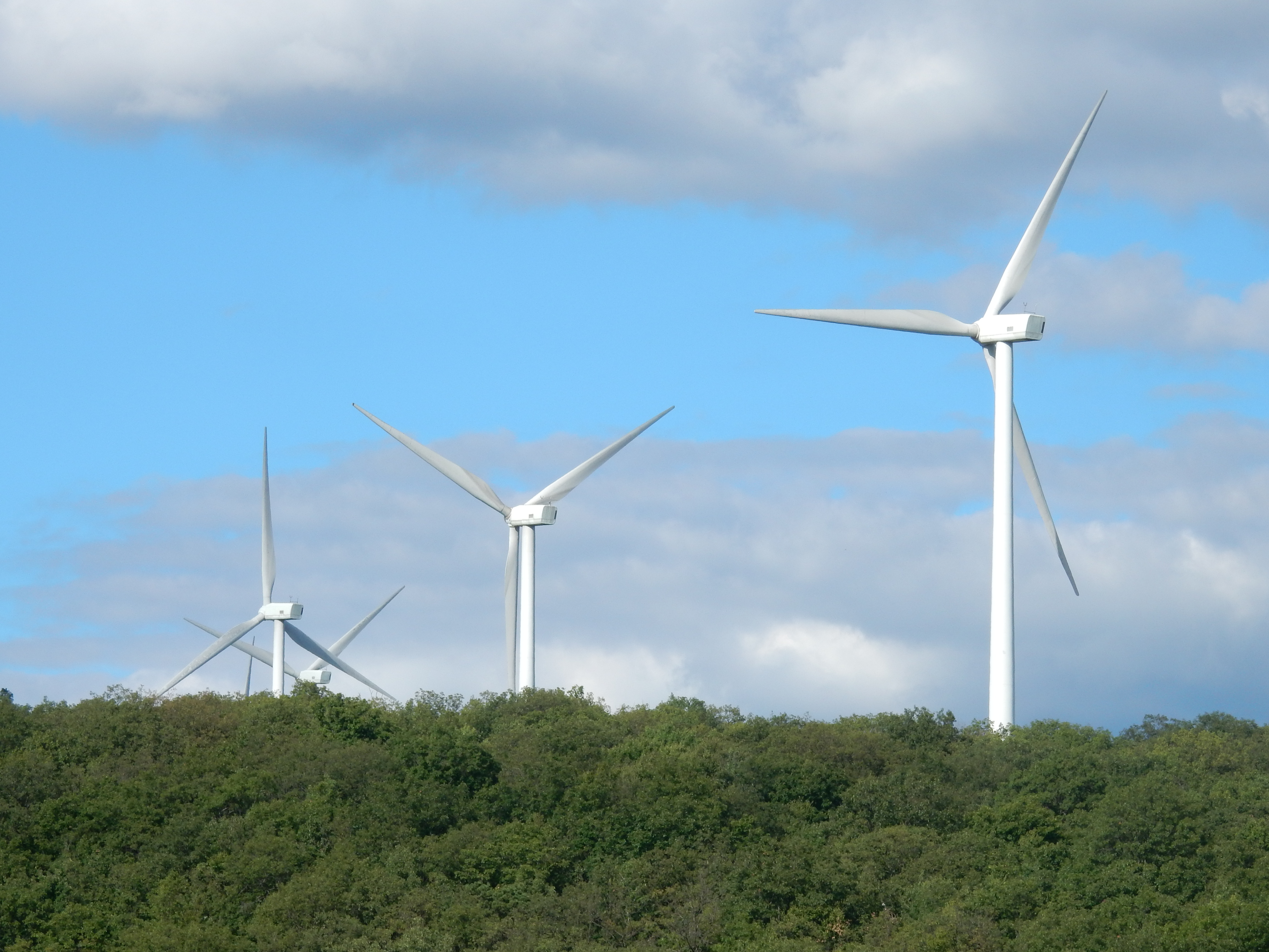 Wind Turbines in Union Township, Schuylkill County, Pennsylvania. View from Shenandoah Heights (West Mahanoy Township).